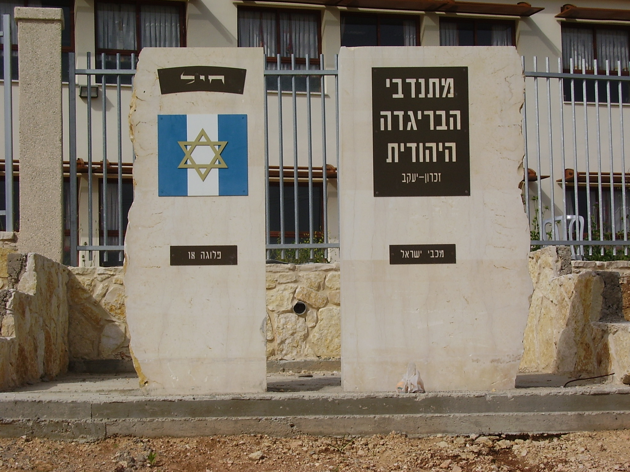 jewish brigade memorial in zikhron jacob